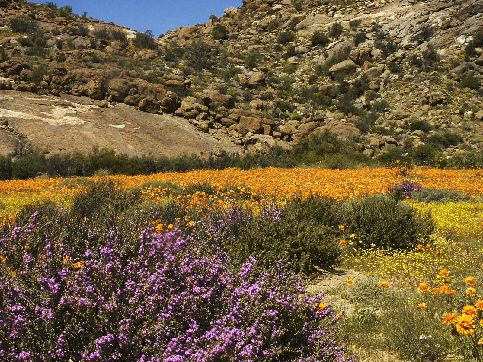 Desert in the spring, flowering Desert, Namaqualand, Goegap Nature Reserve, Northern Cape, South Africa